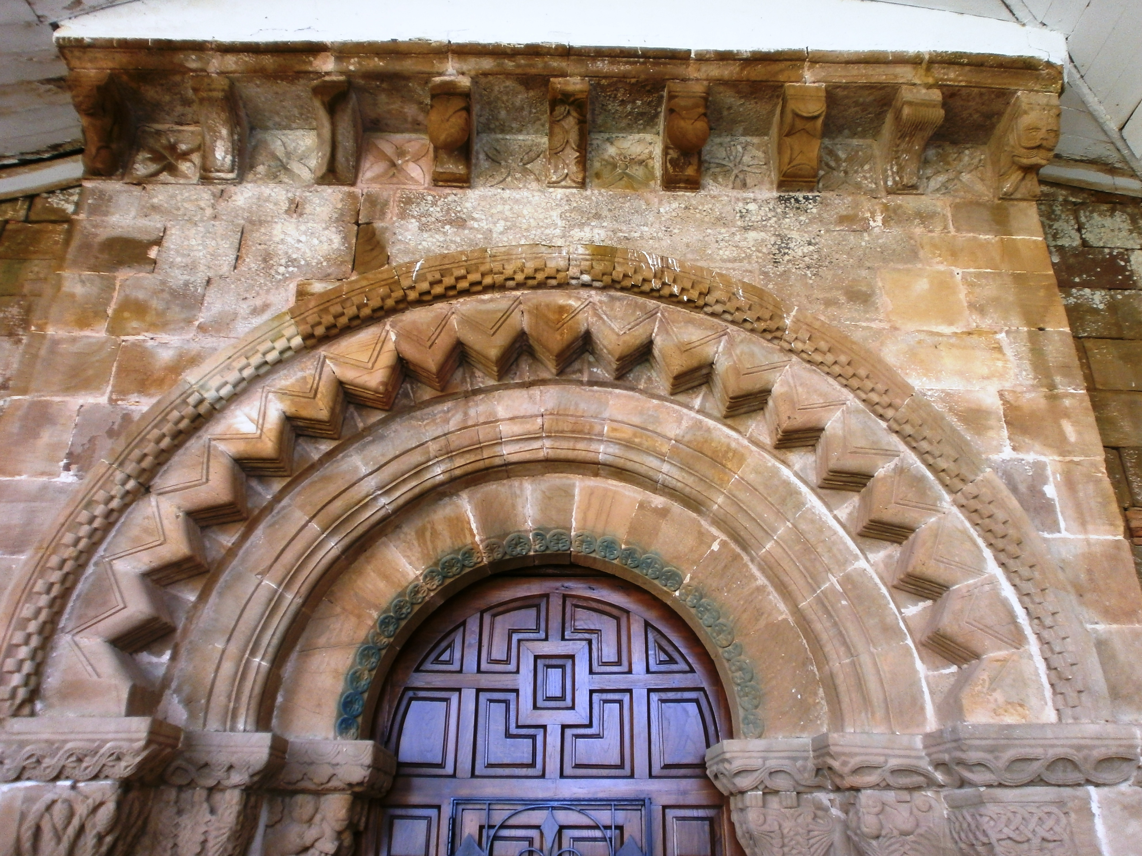 Lugás-Arco trinfo y guardapolvo con 9 canecillos